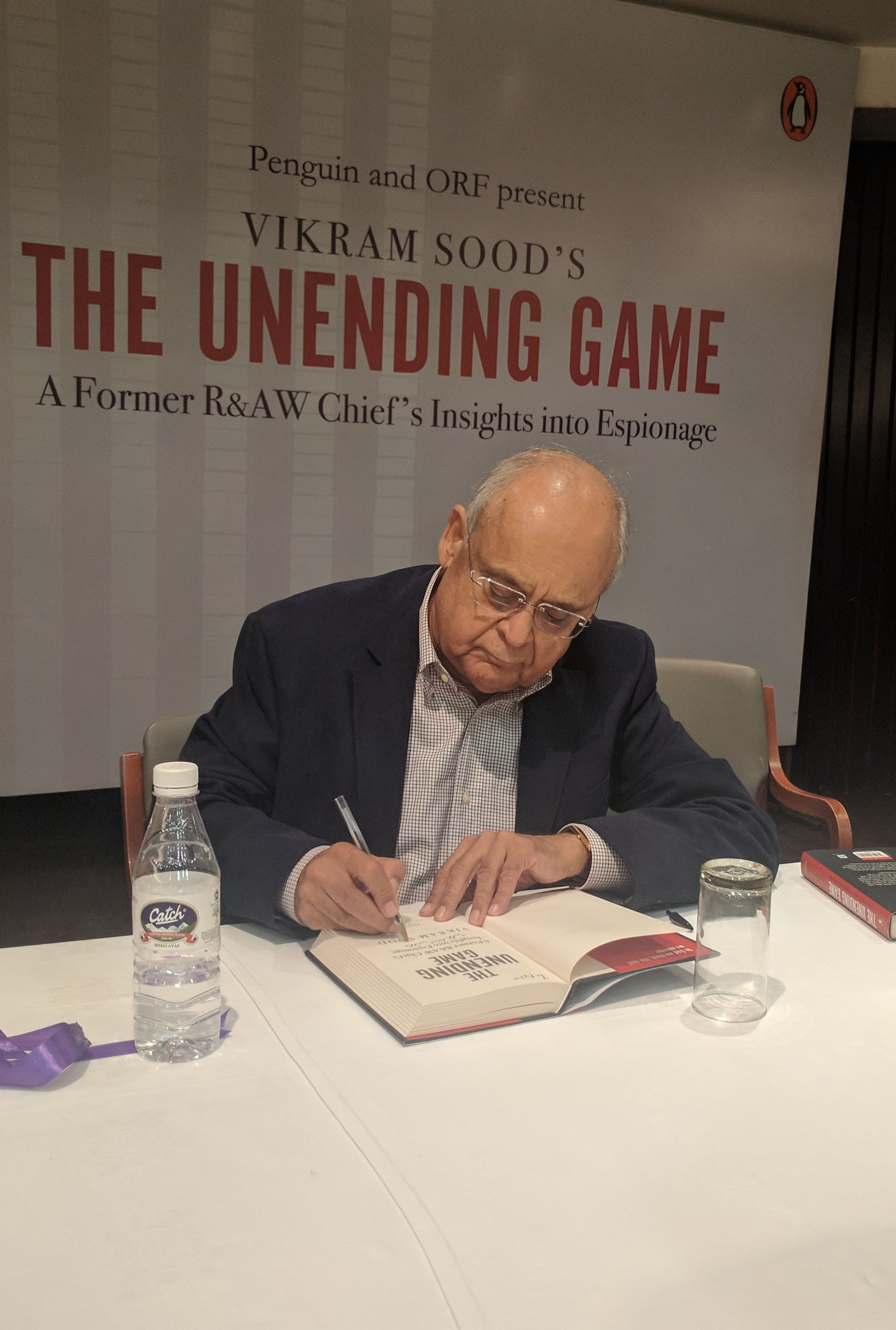 Vikram Sood, Intelligence Chief 2000 - 2003 , Research and Analysis Wing, India. Book launch at India International Center, New Delhi.